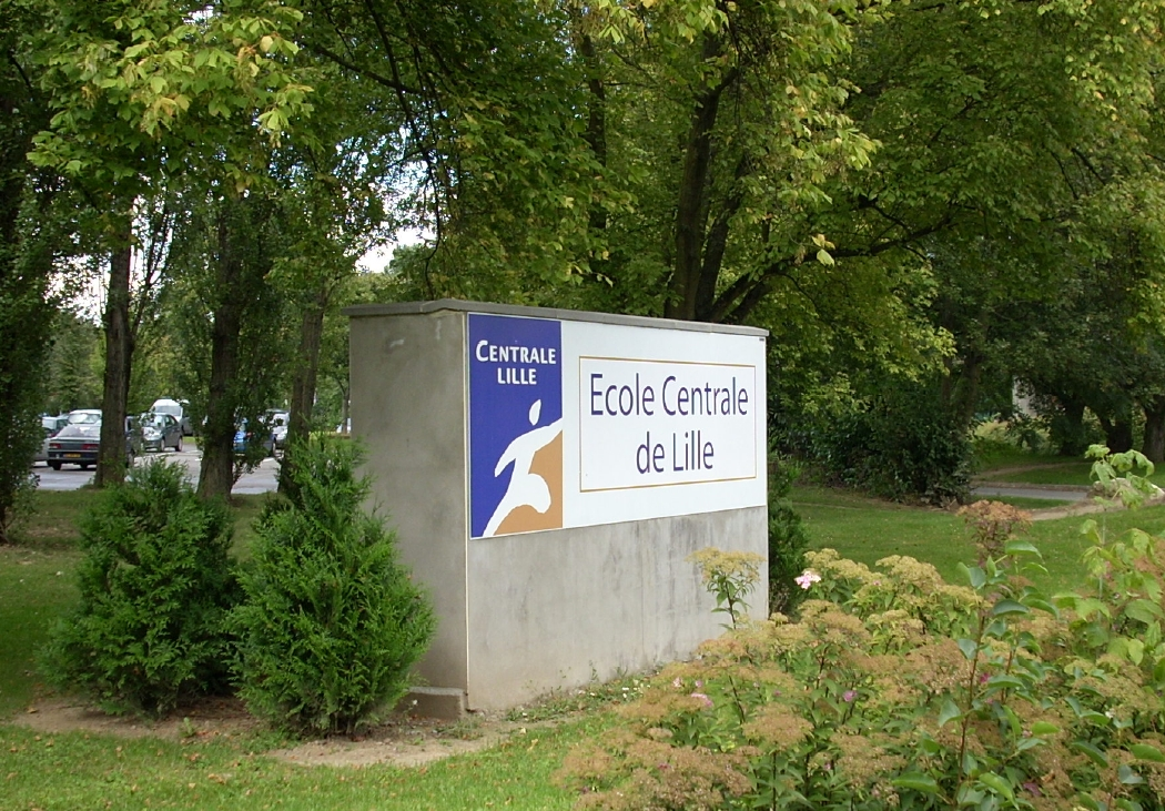 Logo of École centrale de Lille